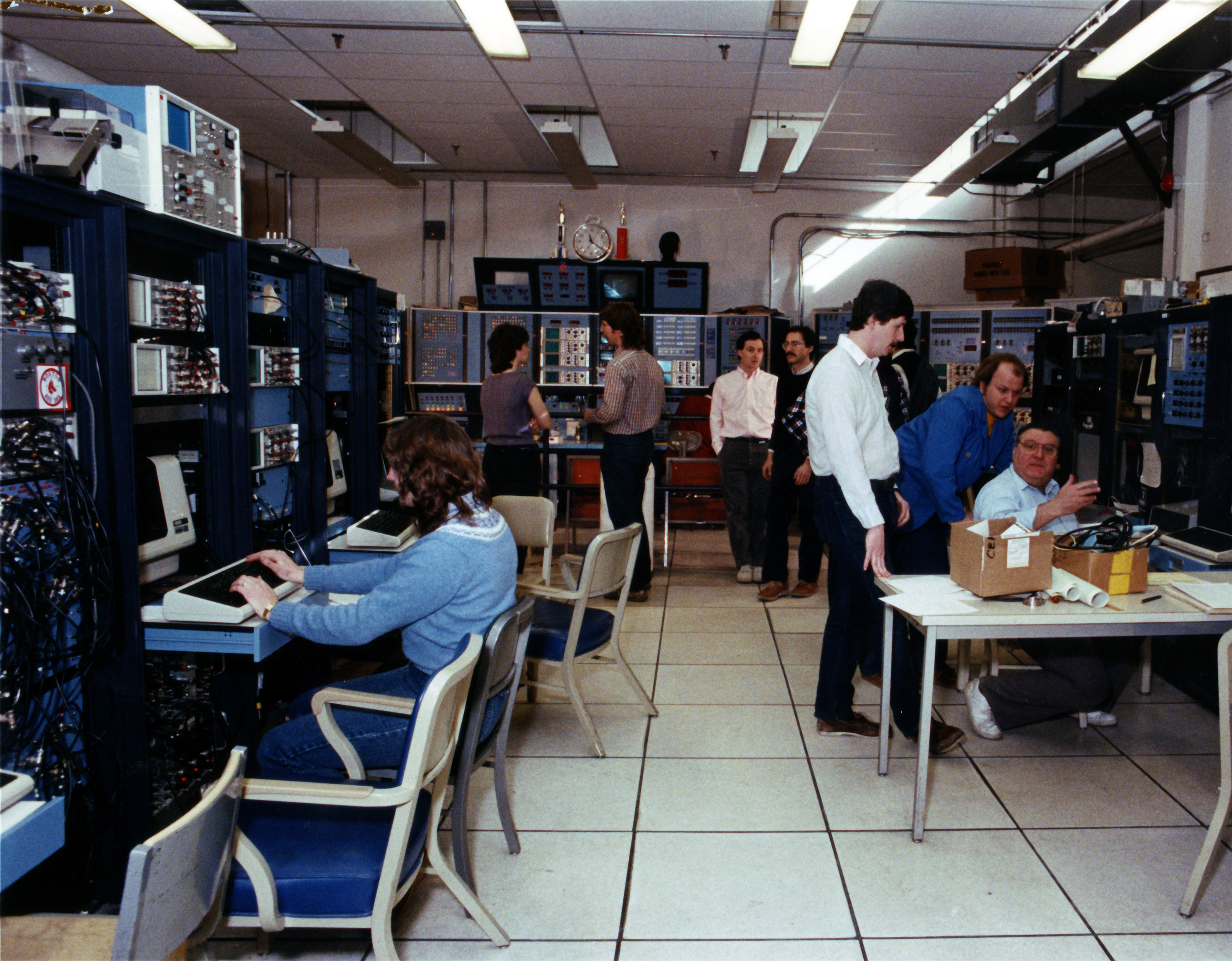 The control room of the Alcator C tokamak at the MIT Plasma Science and Fusion Center (at the time, the Plasma Fusion Center), in about 1982–1983. The tokamak was in the "cell" underneath this control room. From left to right: 1. Catherine L. Fiore (blue sweater) 2. ??? (grey blouse) 3. John E. Rice (checkered shirt) 4. Earl S. Marmar (pink shirt) 5. Bruce Lipschultz 6. Bill C. Parkin (white collared shirt) 7–8. [two unidentified people behind Bill Parkin] 9. ??? (dark blue shirt) 10. ??? (light blue shirt)